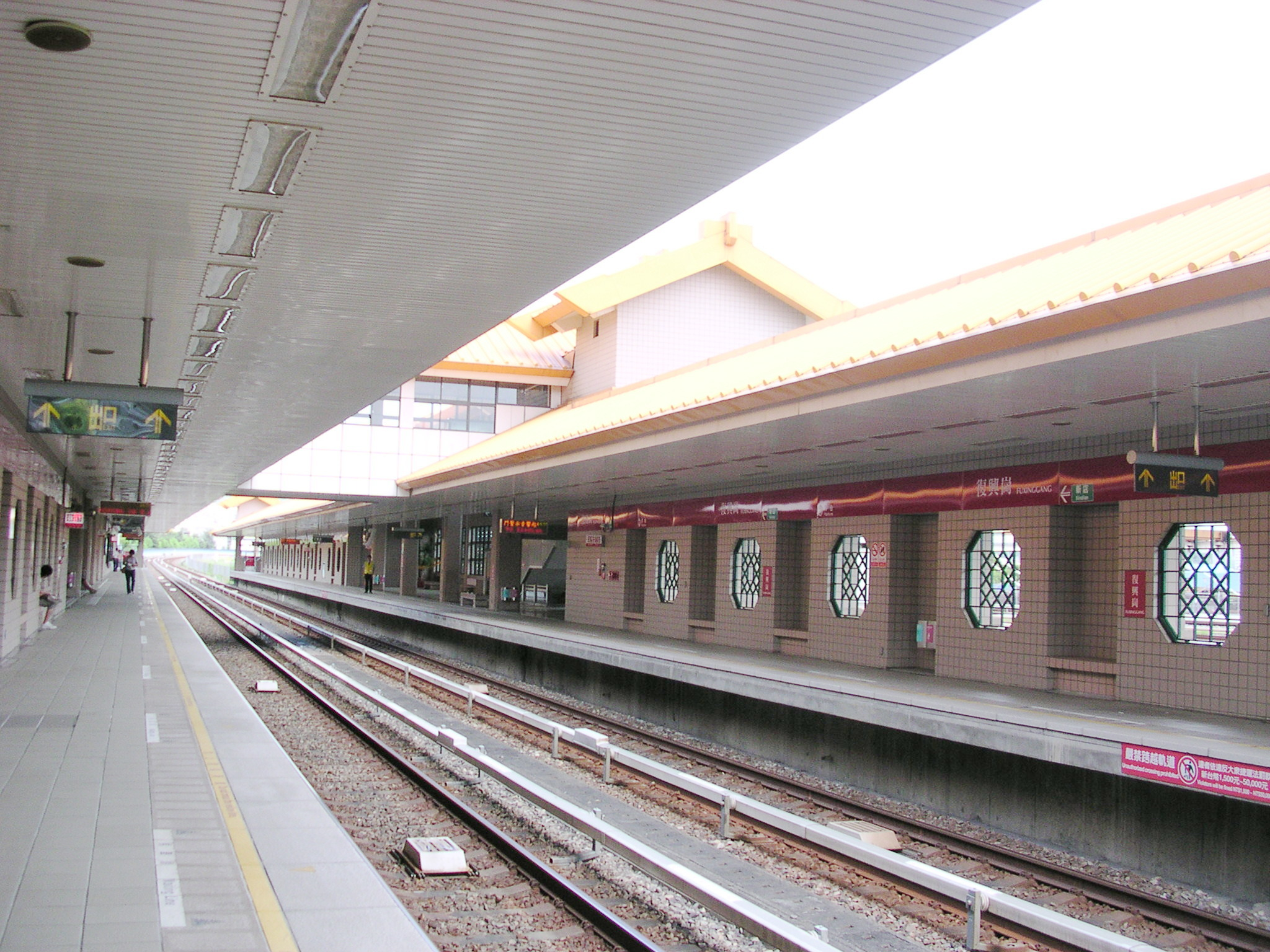 Platform 1 and 2, Taipei MRT Fuxinggang Station.中文（台灣）: 台北捷運復興崗站內為兩座岸式月台，左側第一月台停靠往淡水的列車，右側第二月台停靠往新店的列車